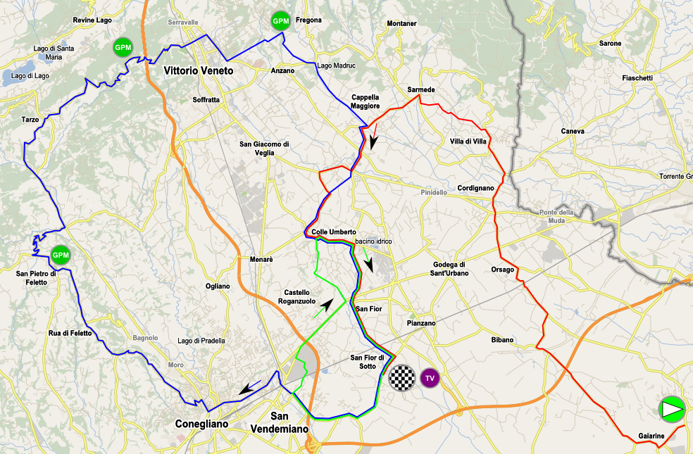 Map of the stage 2 of Giro Donne 2015. Background from OpenStreetMap. The itineary from the start until the first time on the finish line is in colored in red. Then 2 laps of the green circuit are done. Finally the blue circuit is done. Note that there is a doubt about the itineary between San Martino and San Fior as the map and the roadmap from the organiser are in contradiction with each other